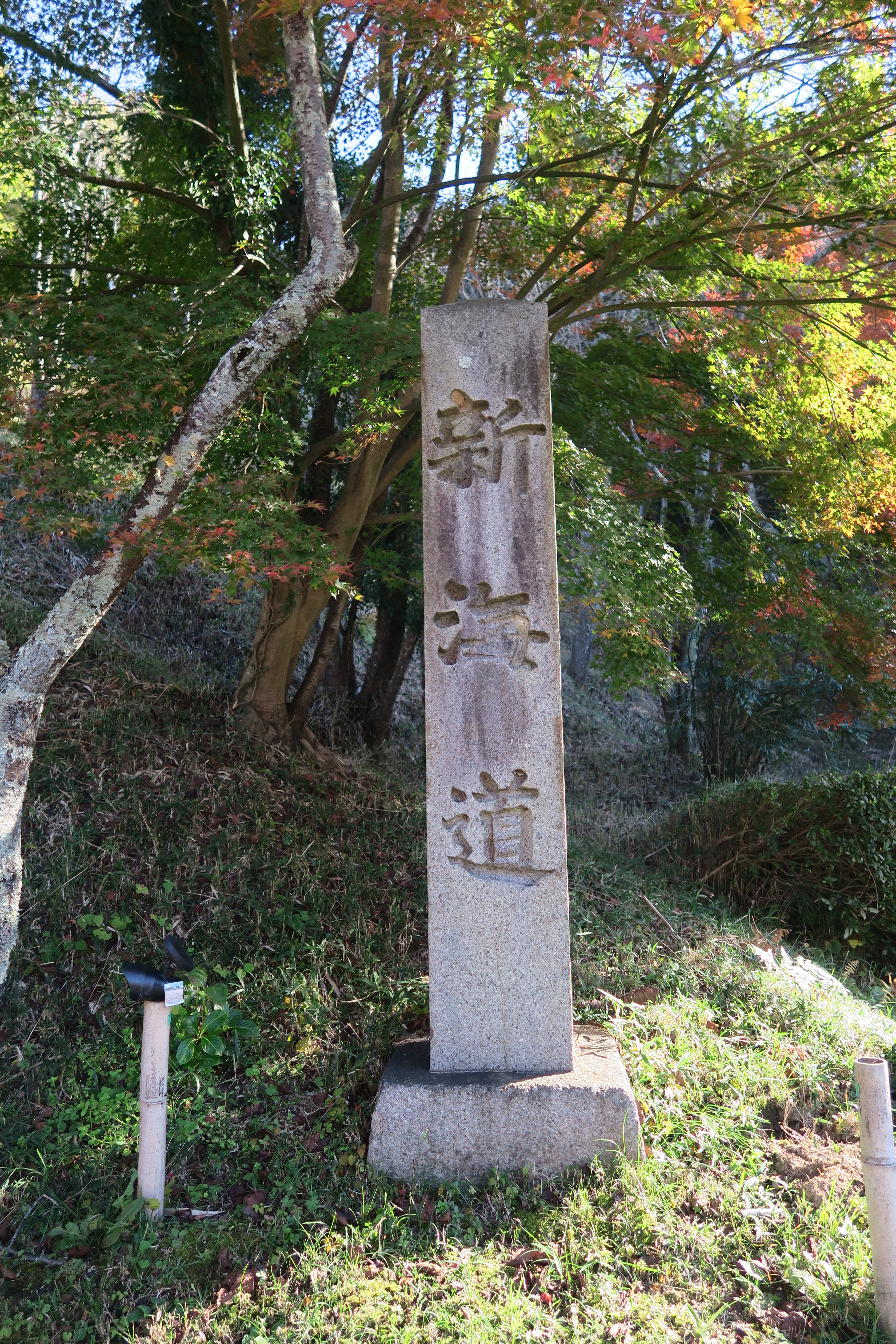 Shin-Kaido, Konan, Shiga, Japan